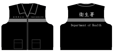 Tobacco Control Inspectors Uniform Vest Tobacco Control Office, Department of Health Hong Kong